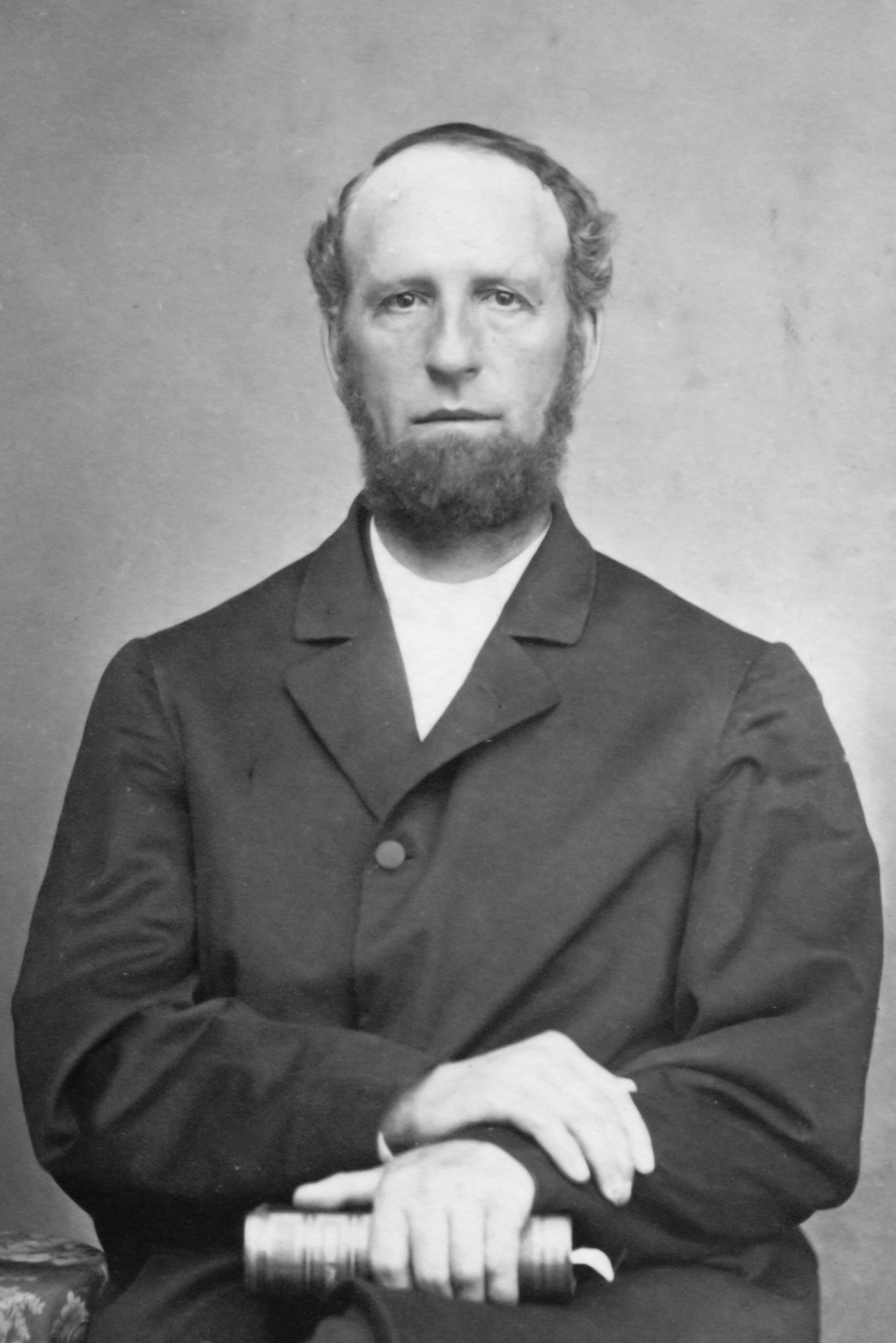 Portrait of James White (1821-1881), Seventh-day Adventist Church co-founder.